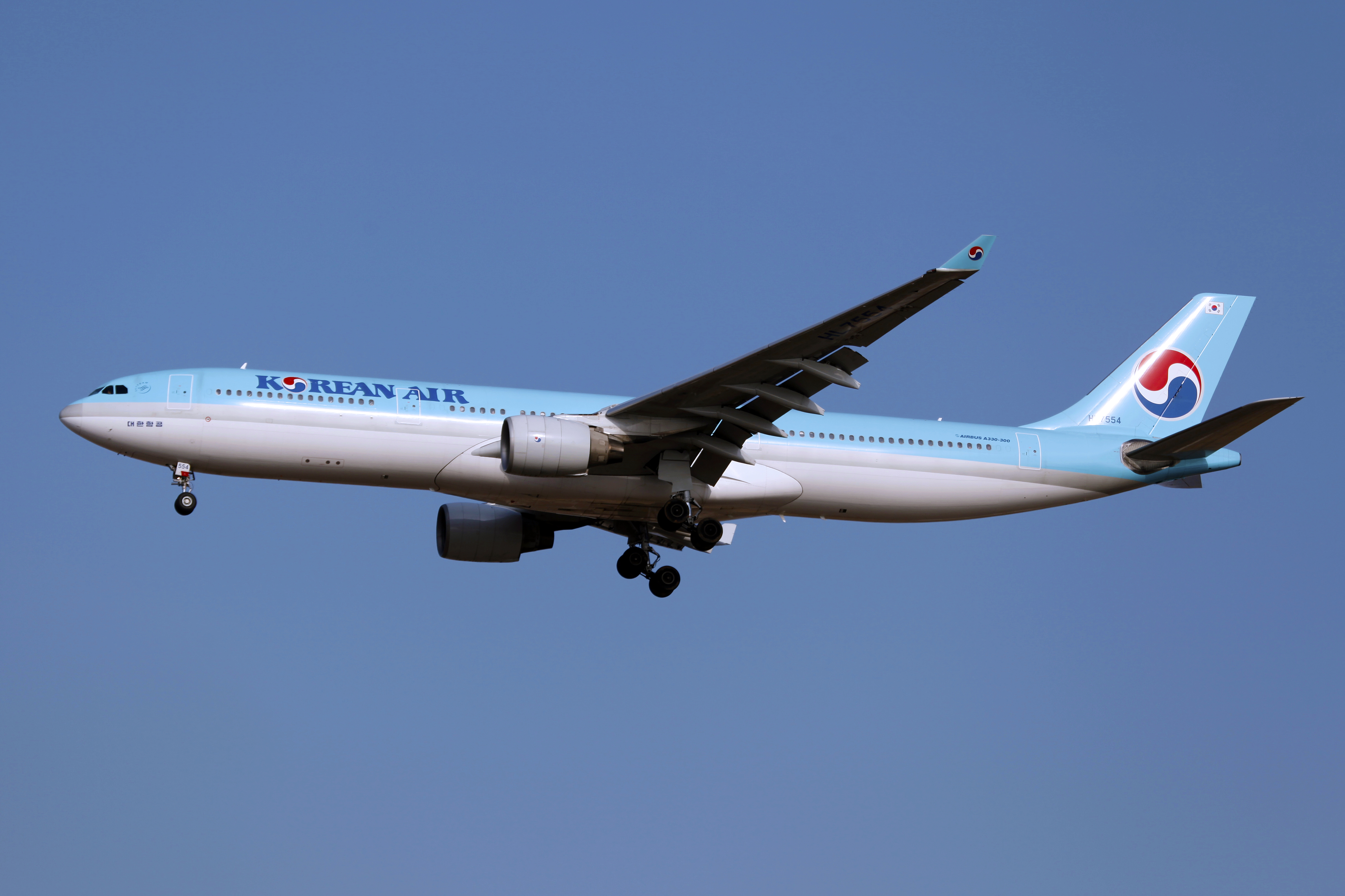 HL7554 | Korean Air Lines | Airbus A330-323 | Seoul Incheon International Airport [ICN]